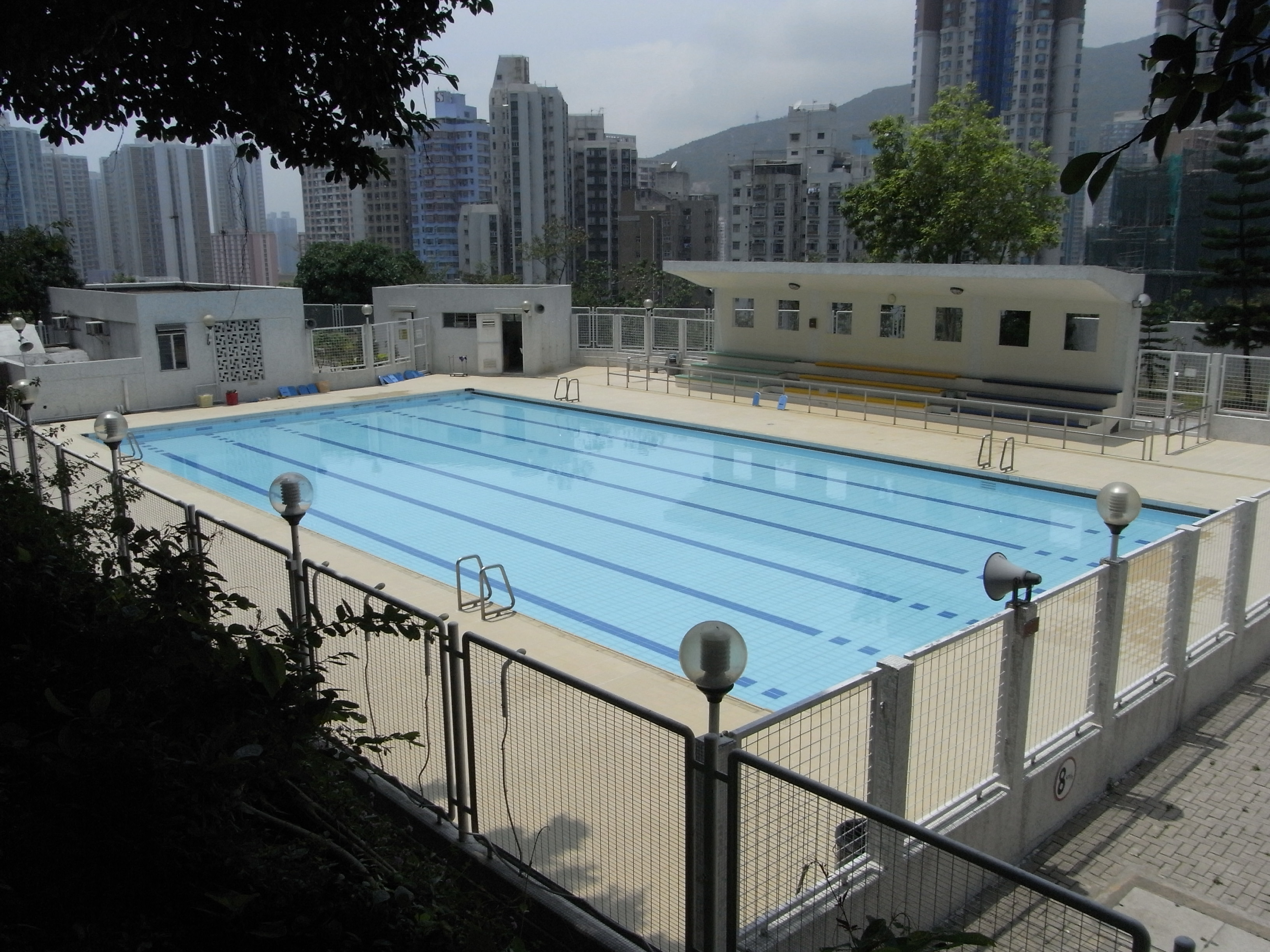 鴨脷洲zh:利東邨 香港仔浸信會呂明才書院 &游泳池